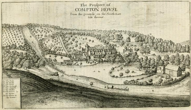 Compton Verney, Warwickshire (Old House) drawn by William Dugdale. Antiquities of Warwickshire, p.436.